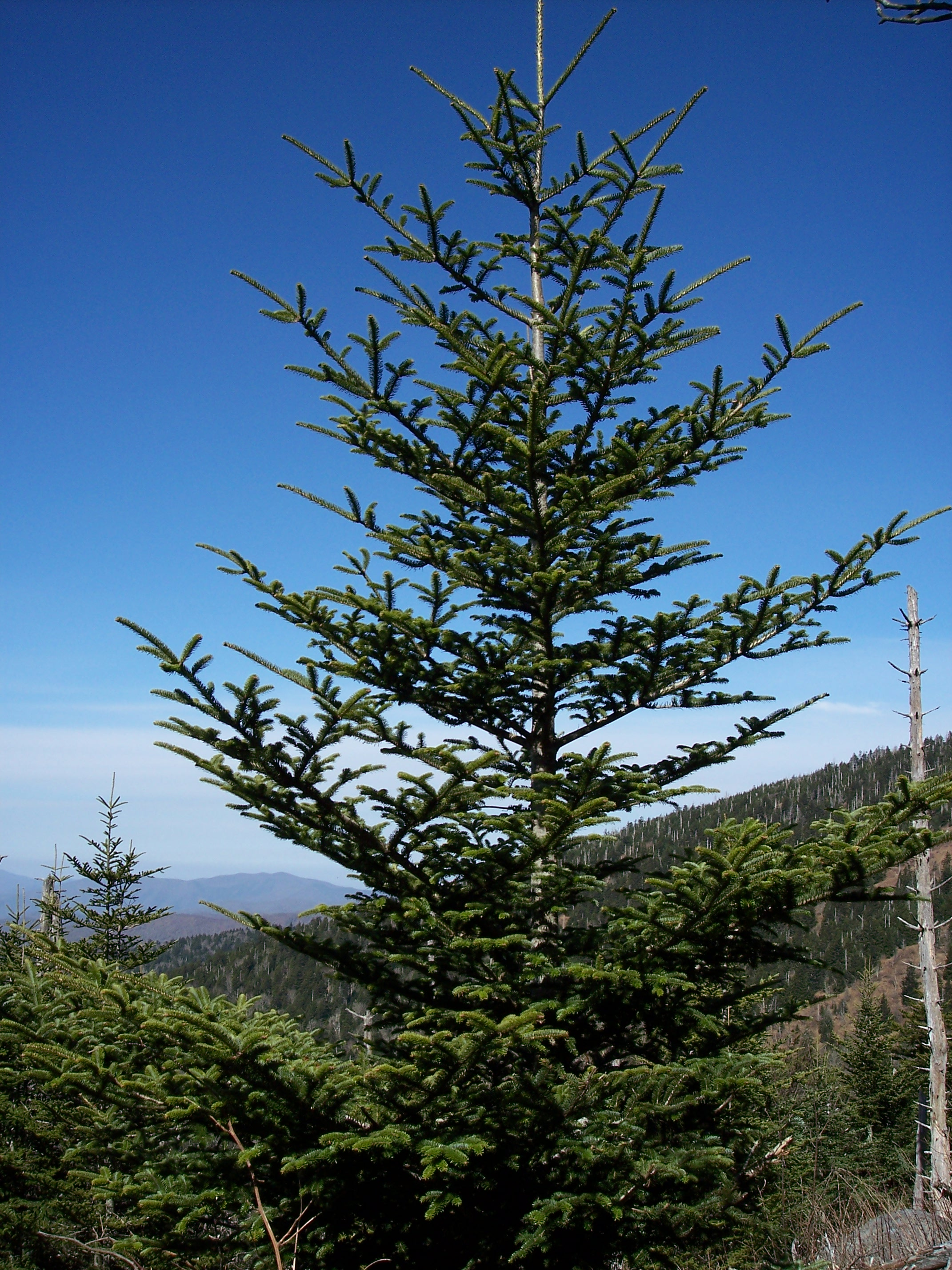 Fraser Fir on the slopes of Clingman's Dome.